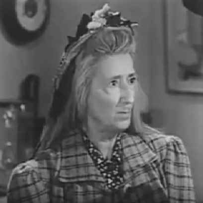 Almira Sessions in the TV series Dick Tracy, episode B.O. Plenty's Folly (cropped screenshot)